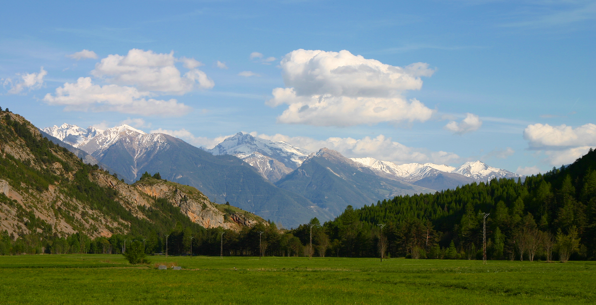 Freissinières